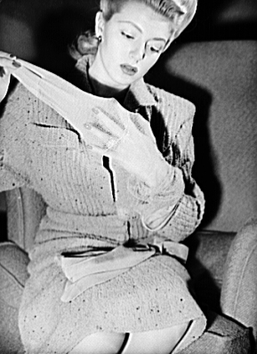 Lana Turner, American actress, inspecting the ankle-flattering bracelet design embroidered on dressy, fine point lisle cotton mesh hose